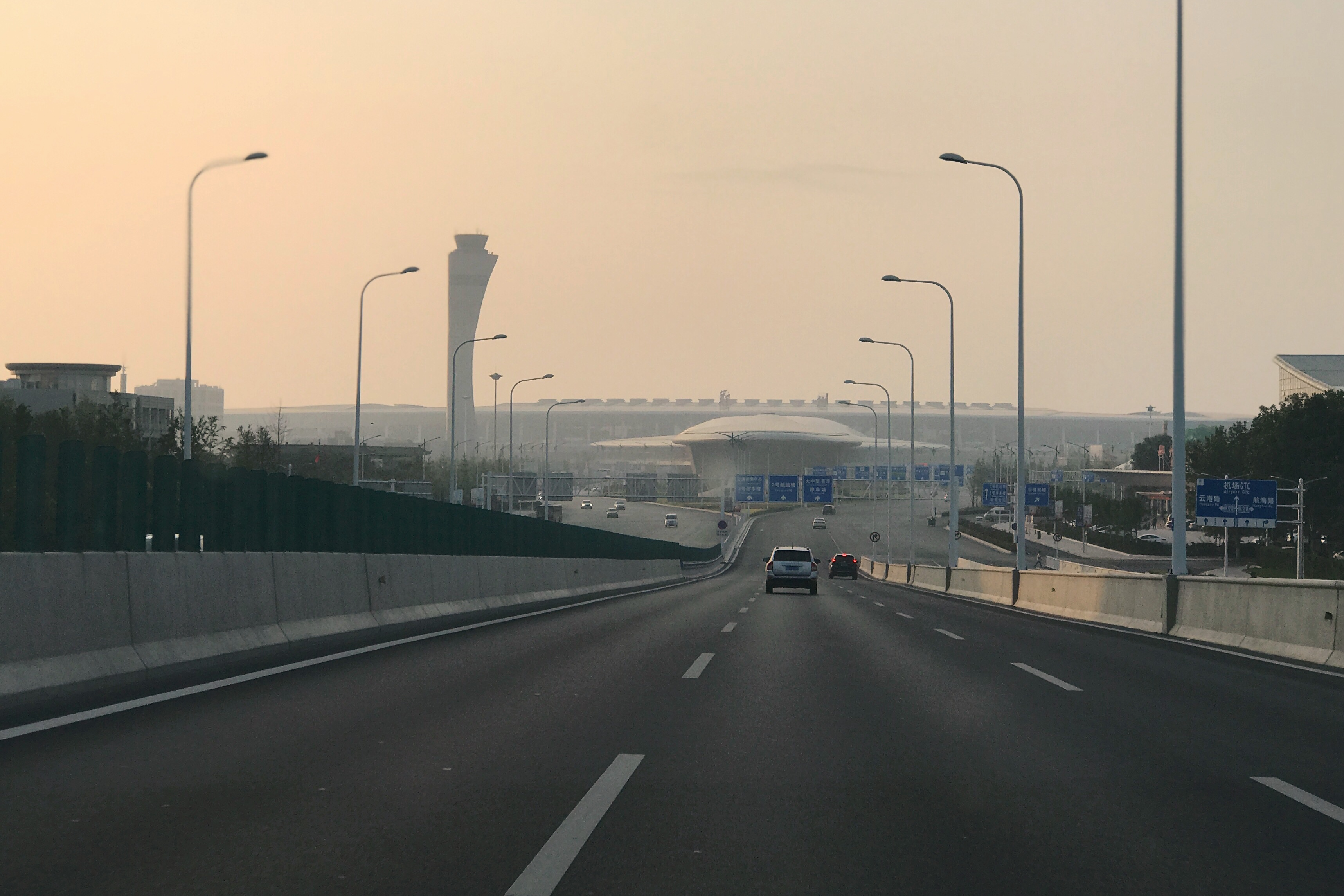 View of Xinzheng Airport from Yingbin Elevated Road